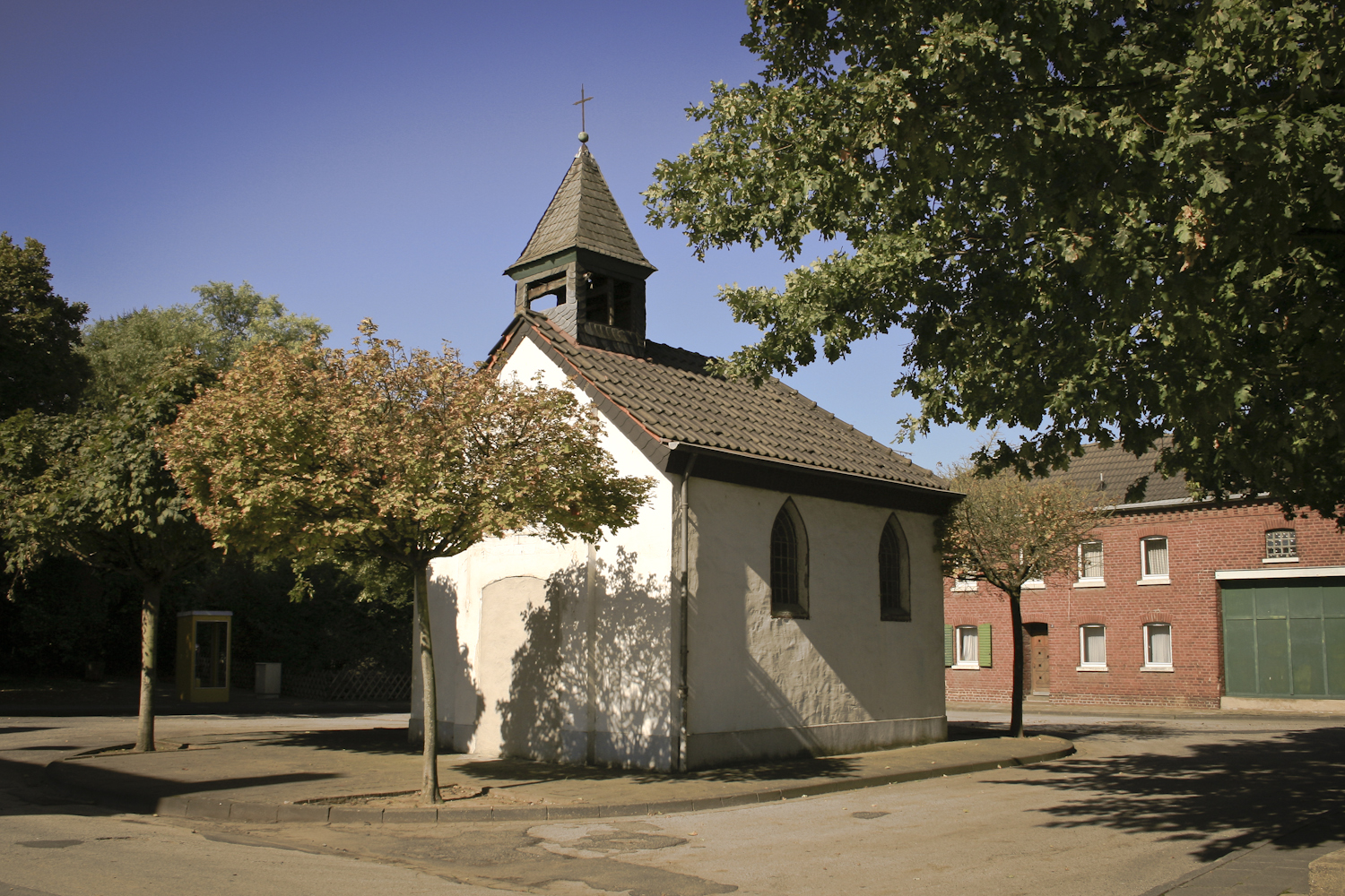 Chapel Holz